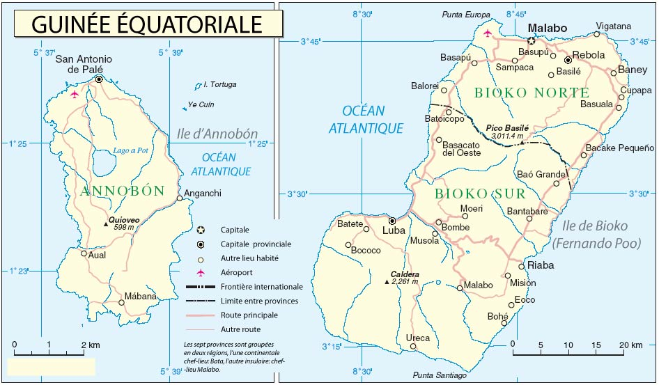 own work based on travail personnel basé sur --Kimdime69 17:40, 14 November 2006 (UTC)